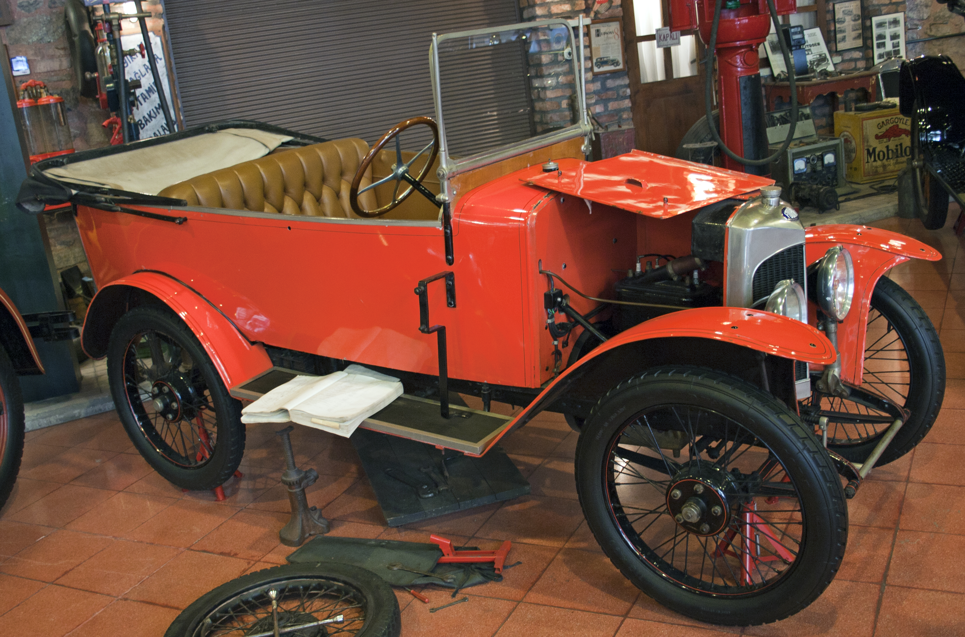 A 1919 Fournier type B146 "Baby Silvestre" cyclecar on display in the Rahmi M. Koç Museum of Transportation. This car was previously in the Dutch Autotron museum. It has a 904cc four-cylinder engine by Ruby.